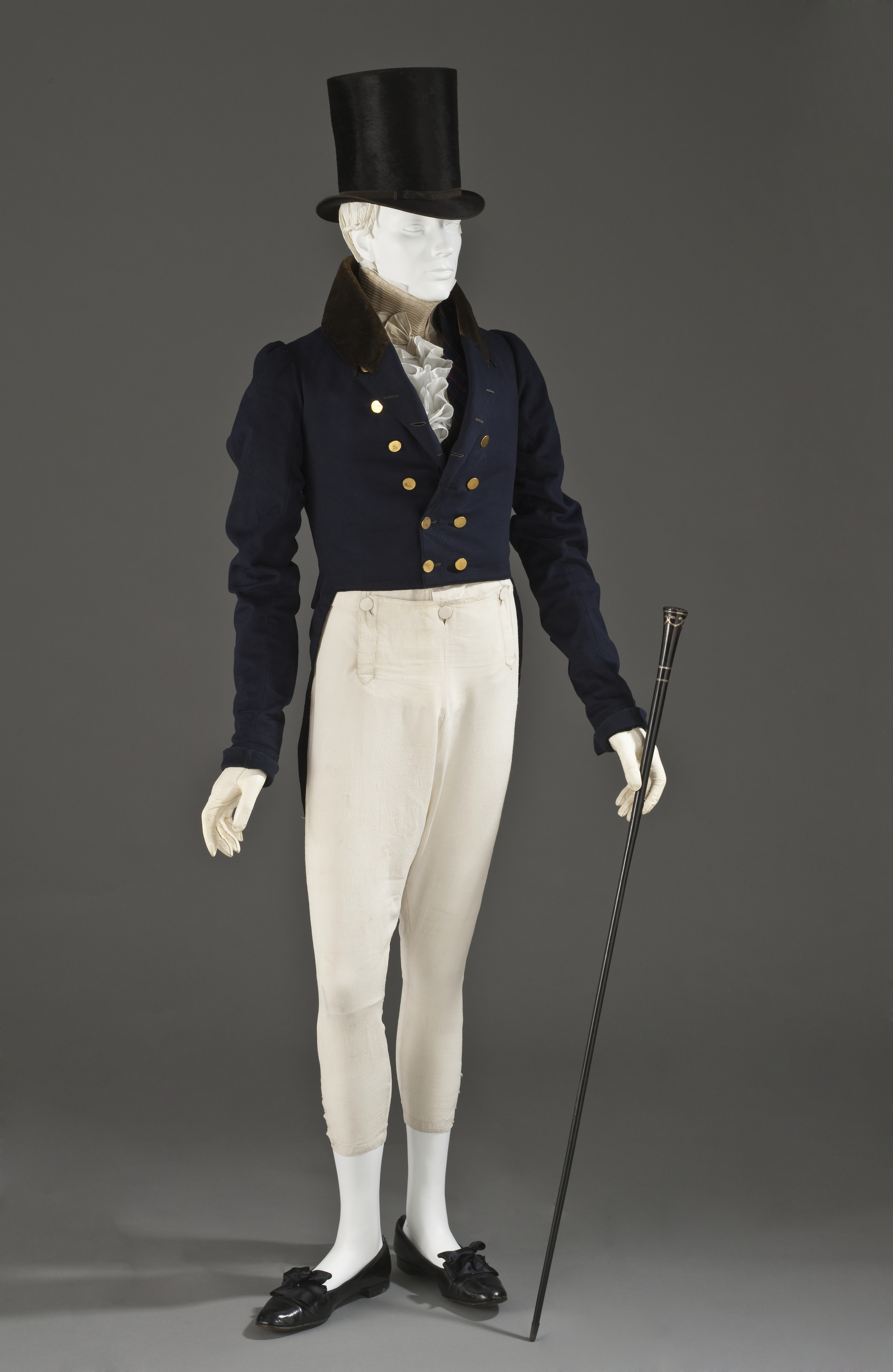 Man’s tailcoat, probably England, 1825-1830. Pantaloons with fall-front, Scotland, 1825-1850. Stock (neckcloth), Boston, Massachusetts, c. 1830. Top hat, Paris, c. 1815